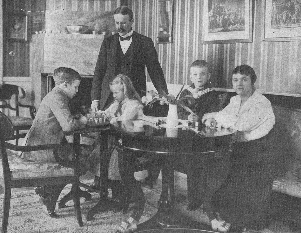 Swedish lawyer and Assistant Commissioner Vilhelm Tamm (1867-1951)